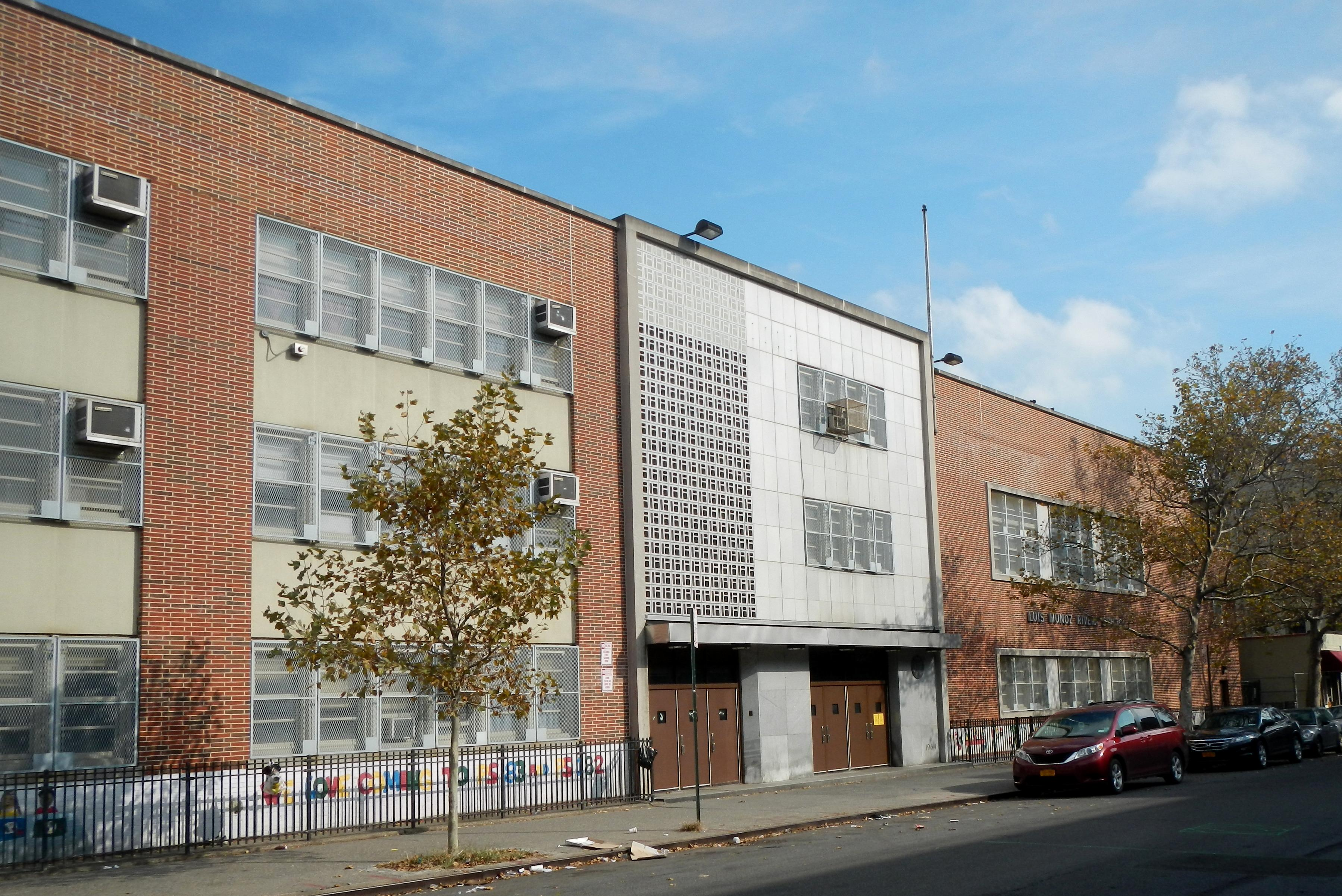 Looking east across 109 Street at PS 83 on a mostly sunny midday.